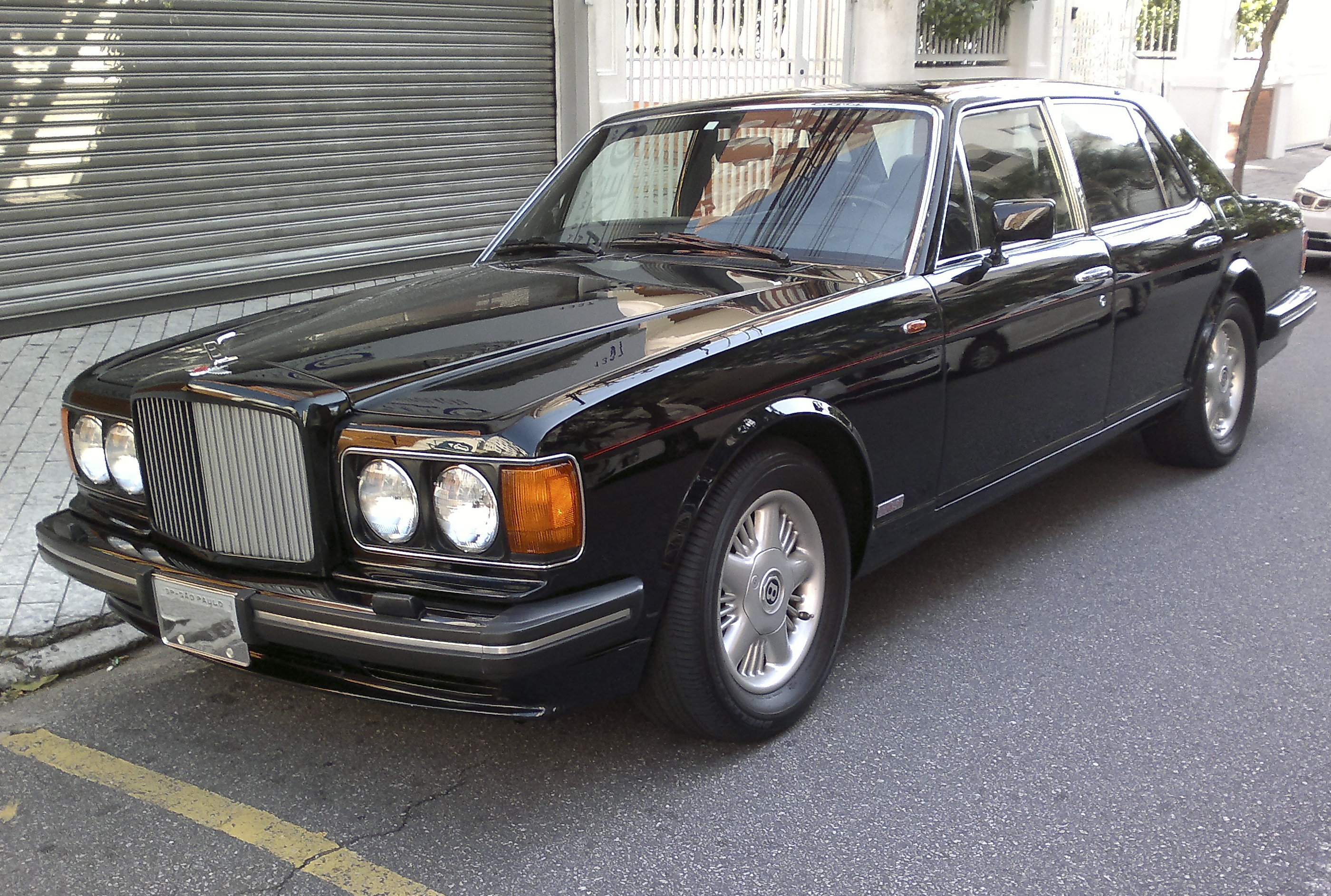 A Bentley Turbo R, São Paulo, Brazil